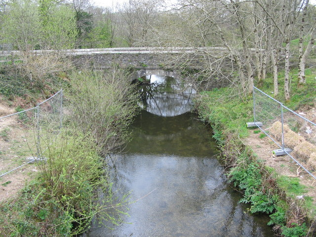 Old bridge at Two Bridges. A view looking southeast towards the old bridge near the Two Bridges parking area off the A30 dual carriageway. The temporary fences either side of the River Inny enclose the site of the construction of abutments for a new footbridge.